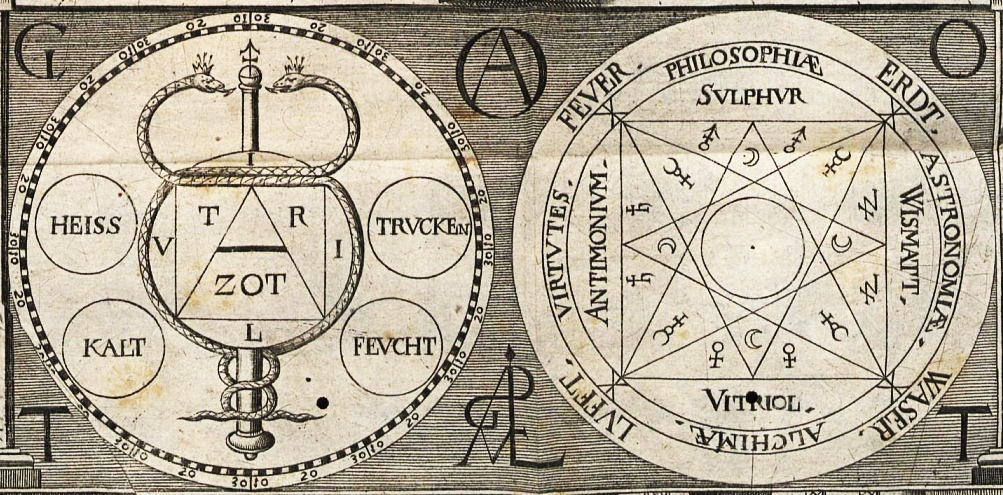 Spigel Der Kunst und Natur. Cabala, Speculum Artis et Naturae in Alchymia by Stephan Michelspacher (1654) (Dresden). AGLA Detail.